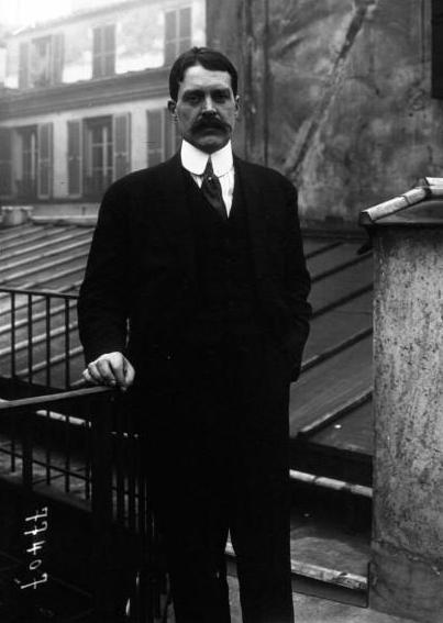 Picture of the politician Jean Fabrin